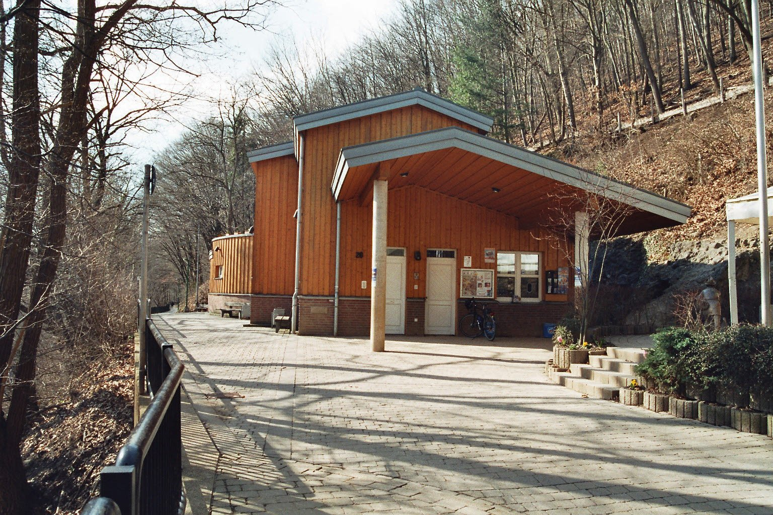 The entrance of the so called Kluterthöhle in Ennepetal, Germany